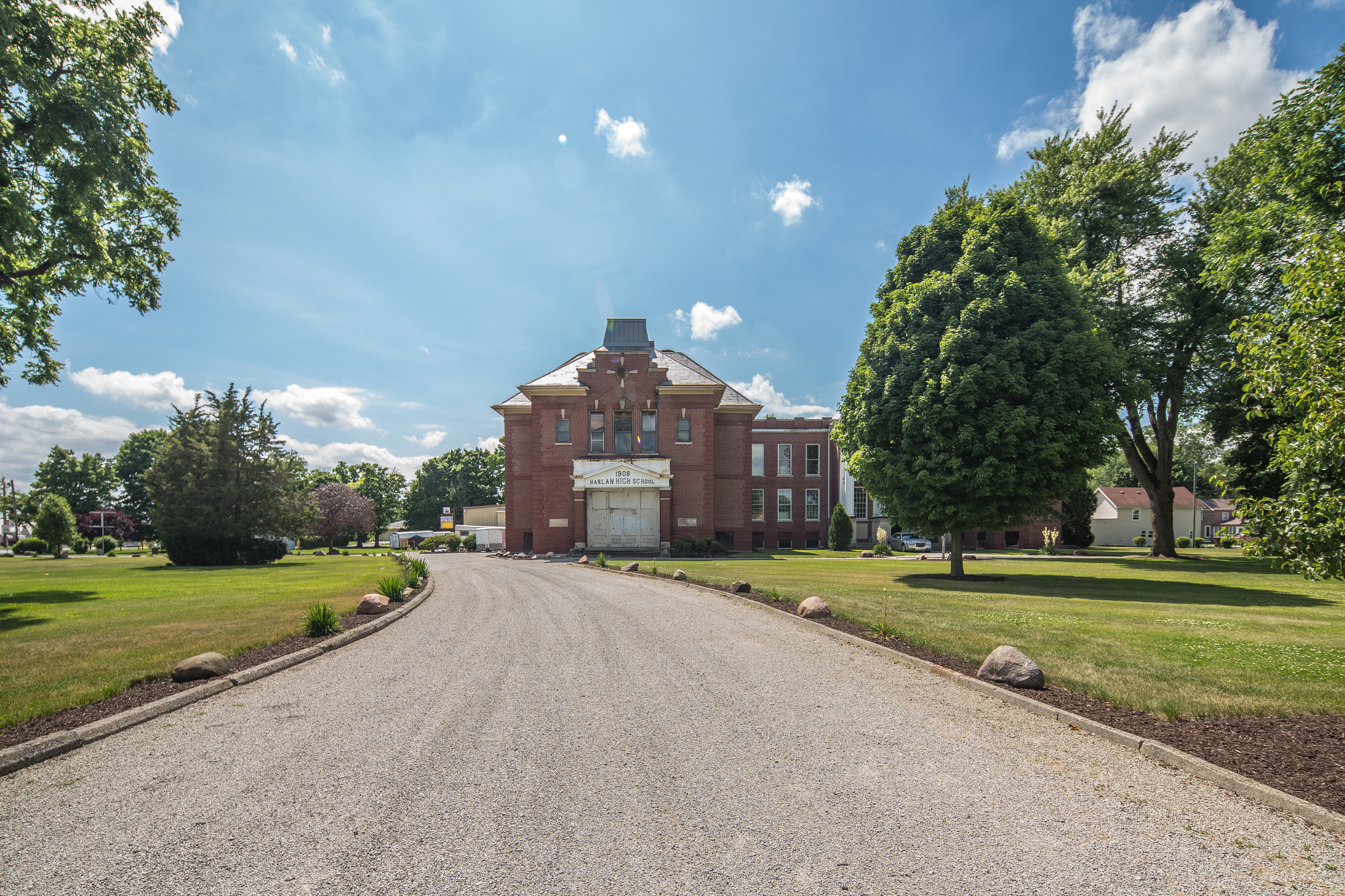 Photo from Small Town Indiana photo survey.